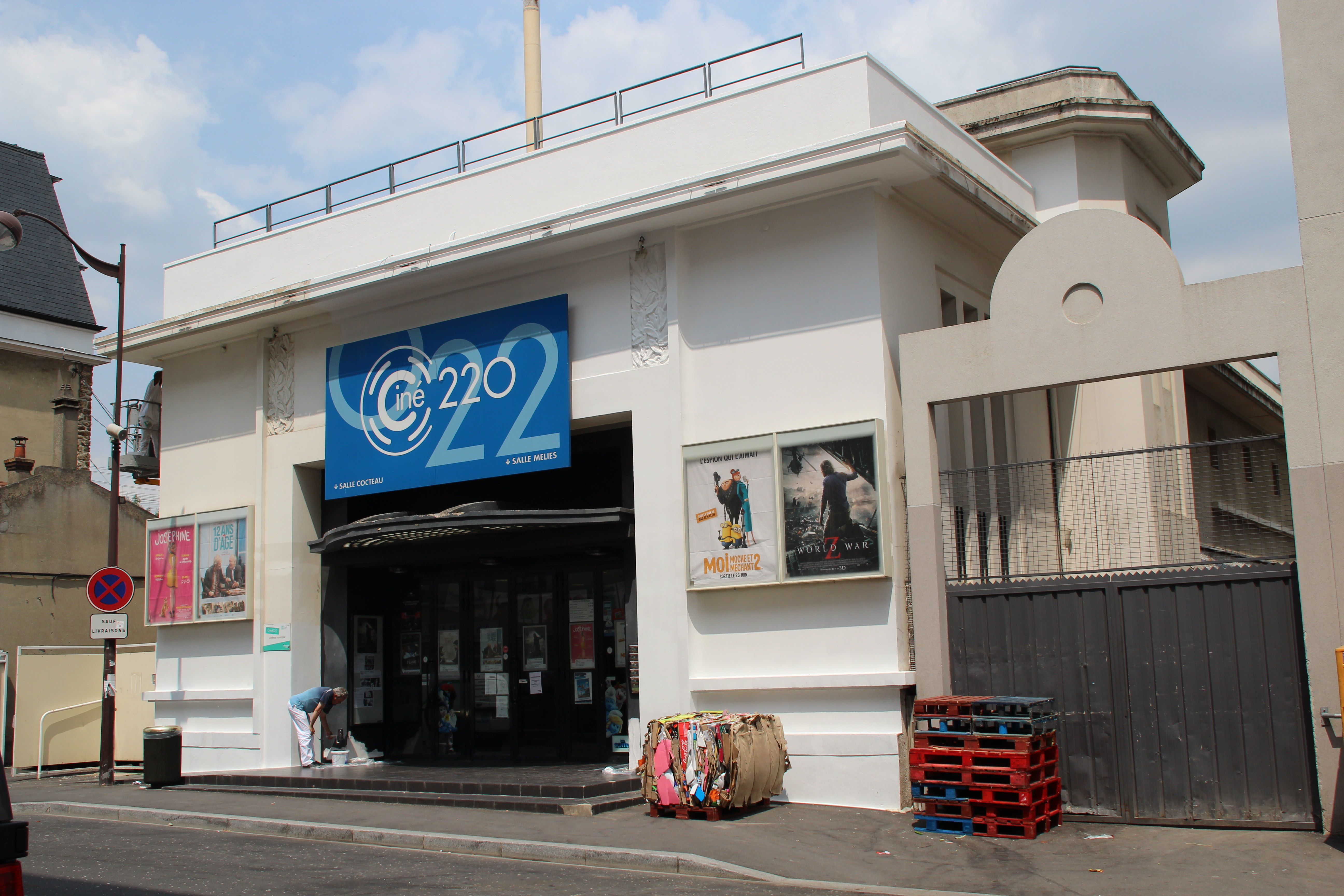 Art Deco movie theatre building located 3 Rue Anatole France in Brétigny-sur-Orge, France.